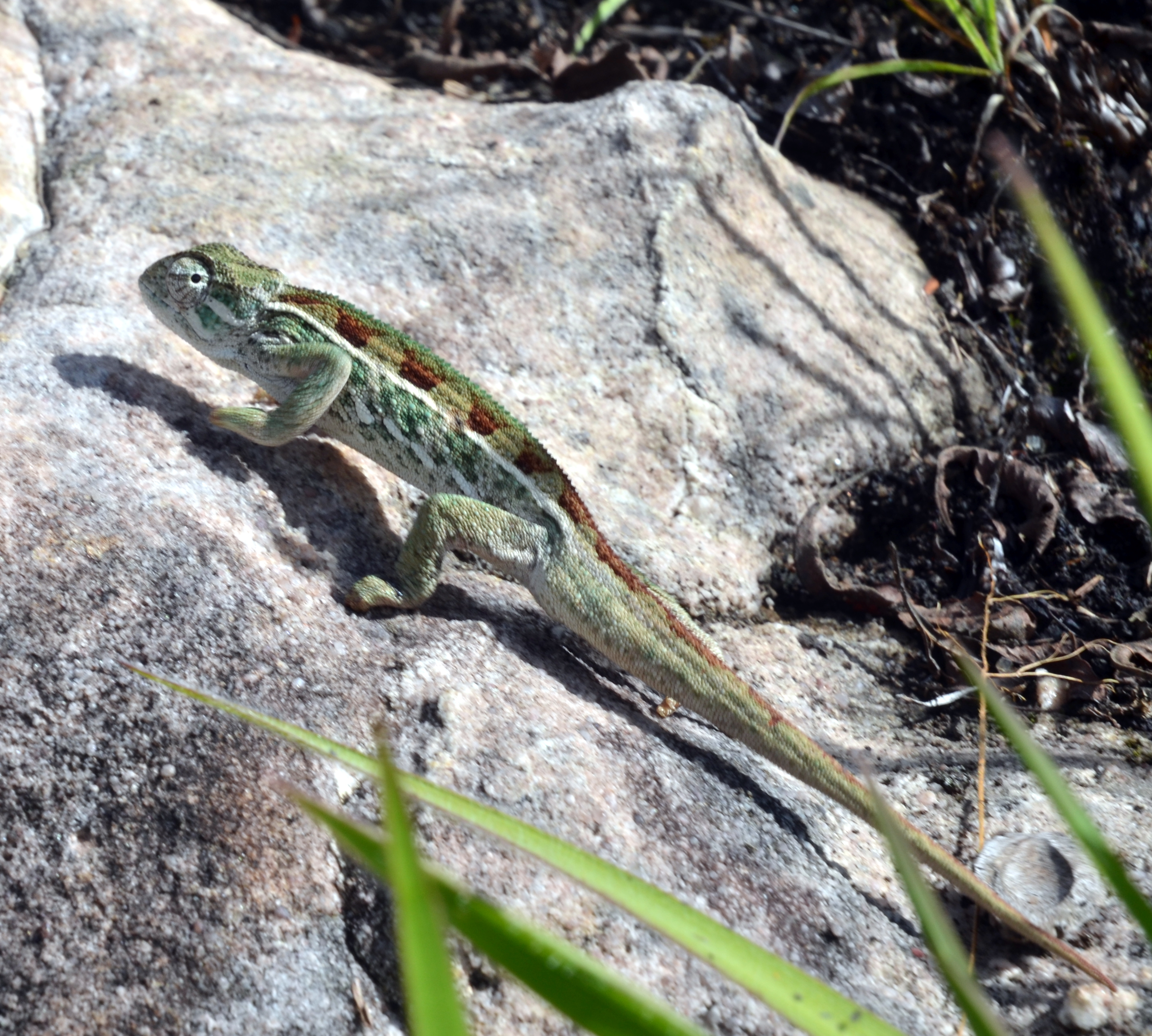 Tubercle-nosed Chameleon in Kitulo National Park, runnig away